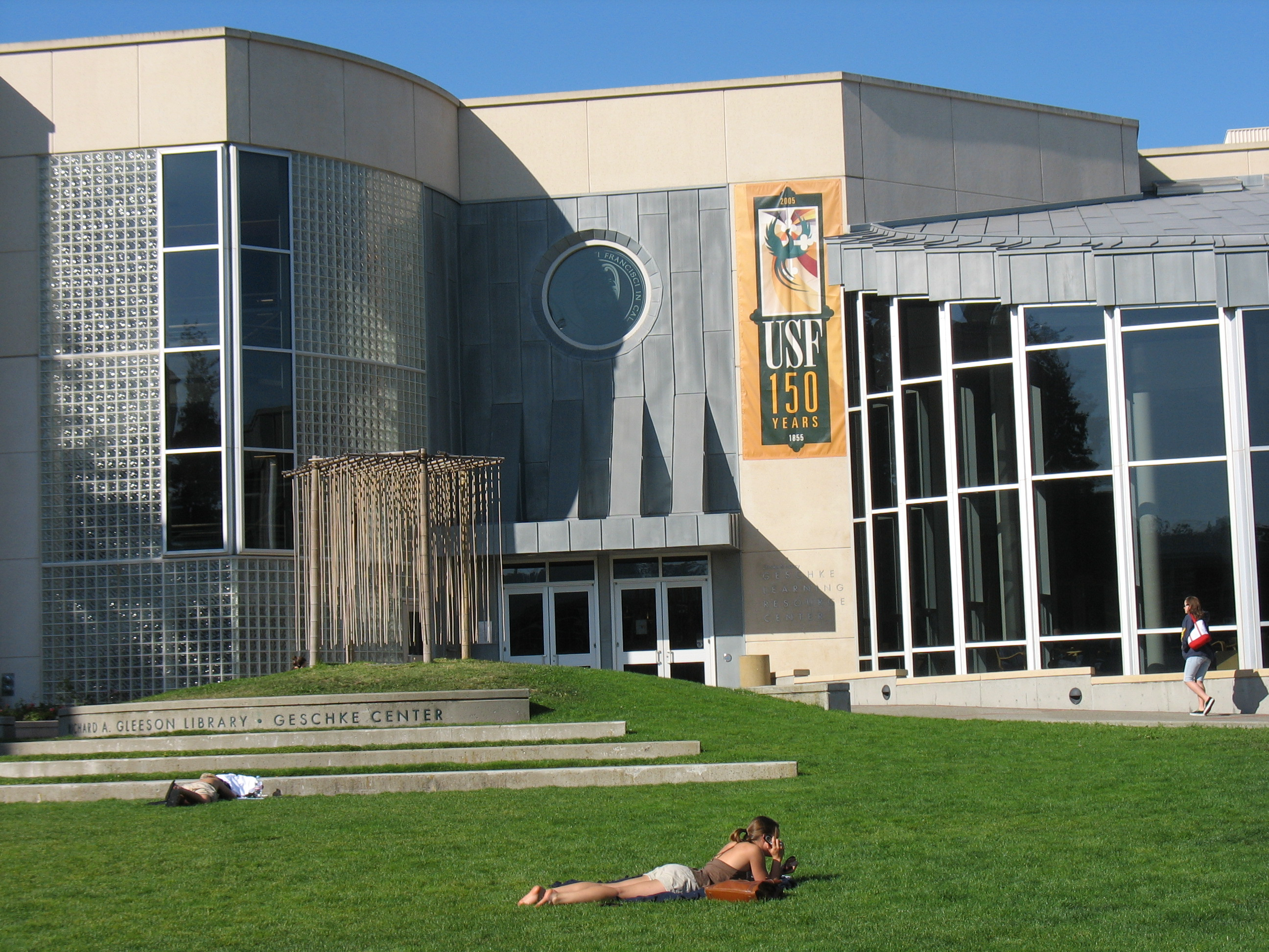 Gleeson Library and Geschke Learning Resource Center, University of San Francisco